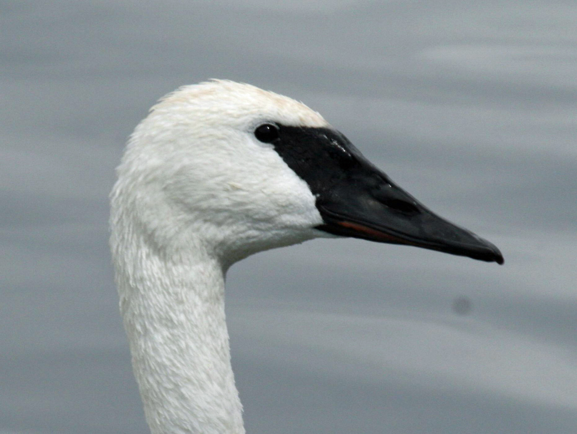 Trumpeter Swan (Cygnus buccinator) at Jackson Hole, Wyoming